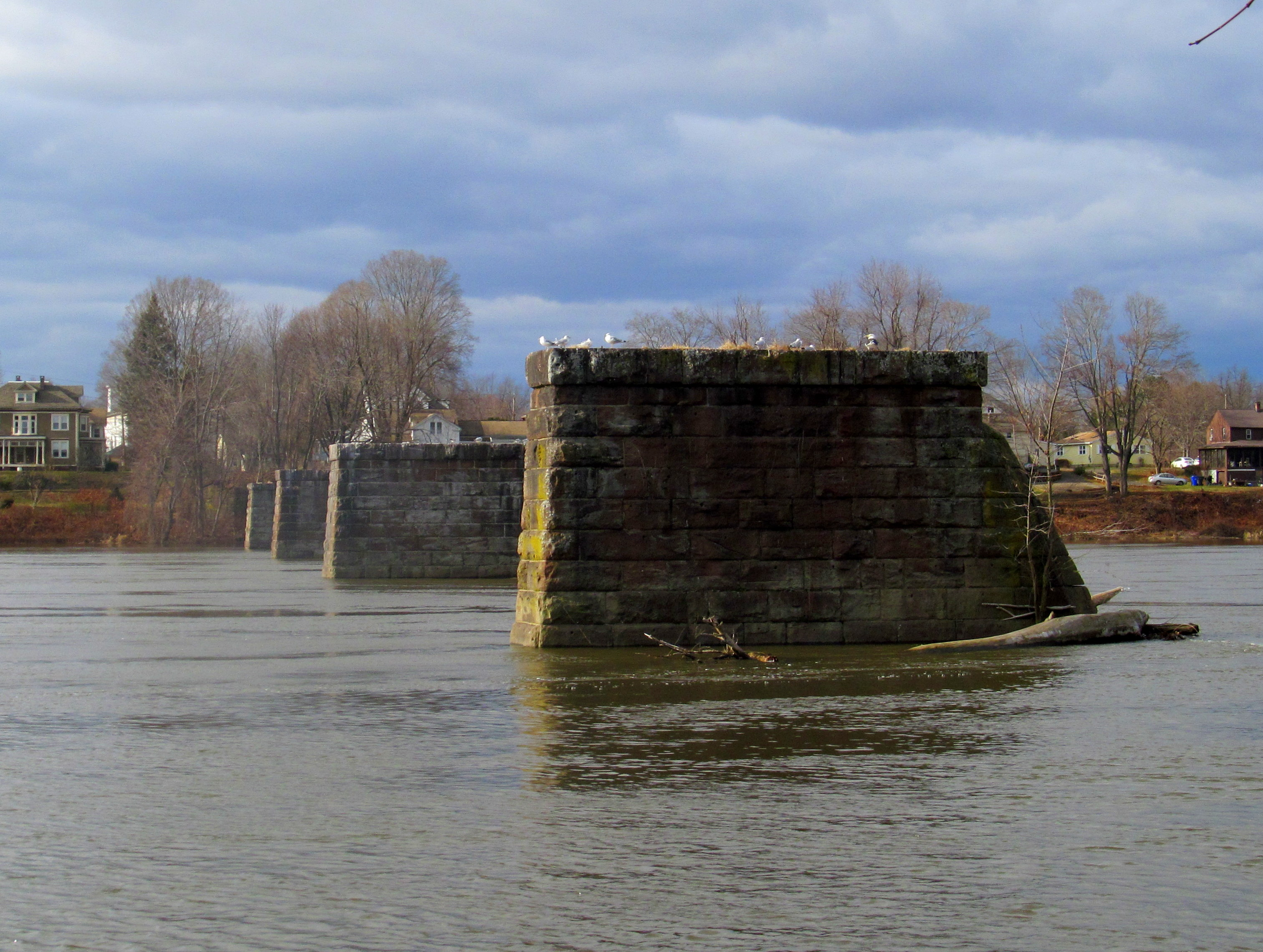 Piers of the former Suffield-Thompsonville Bridge in December 2014